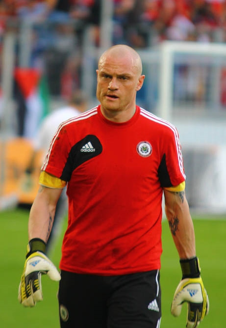 Latvian international football goalkeeper Pāvels Doroševs